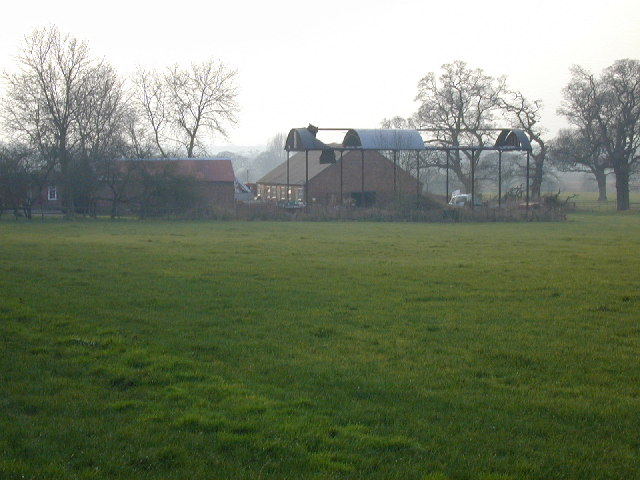 Gorse Hall New Farm. Taken from the railway.